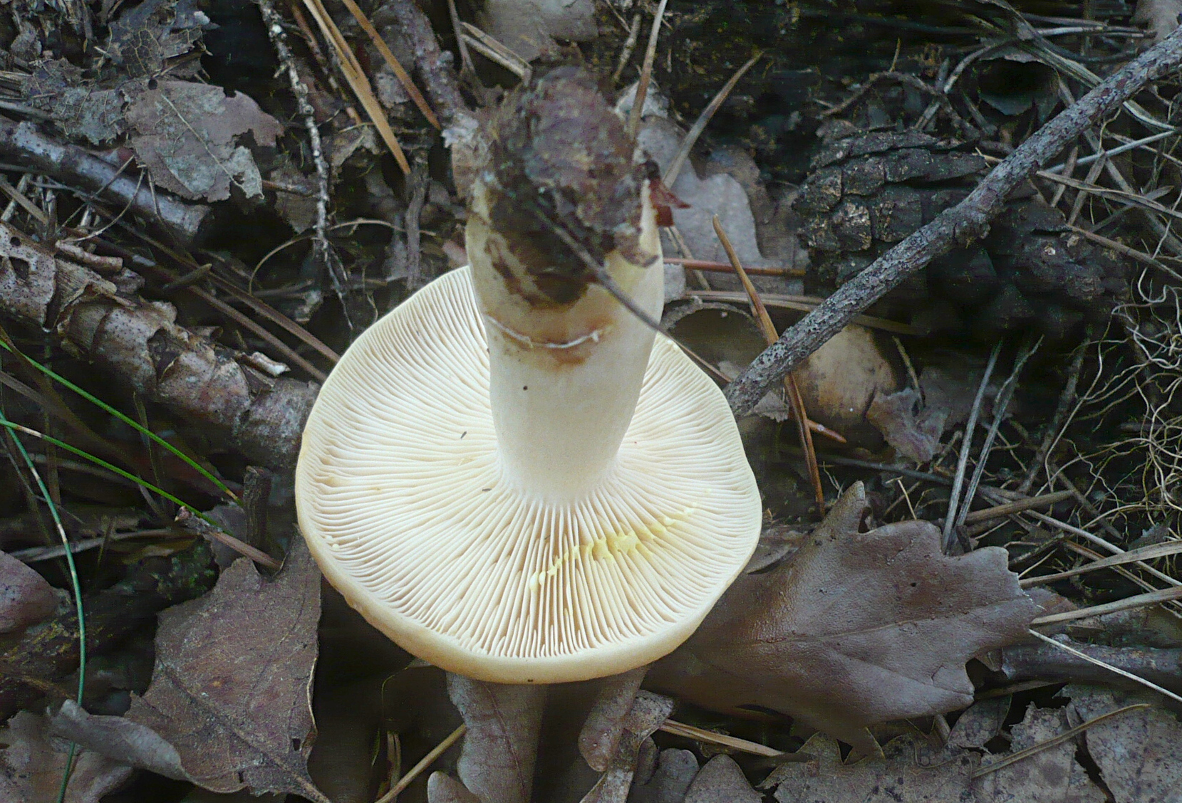 Lactarius chrysorrheus Fr.